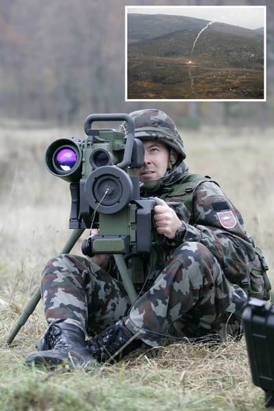 Slovenian soldier with Spike MR/LR